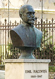 Bust of Emil Racoviță in Cluj-Napoca